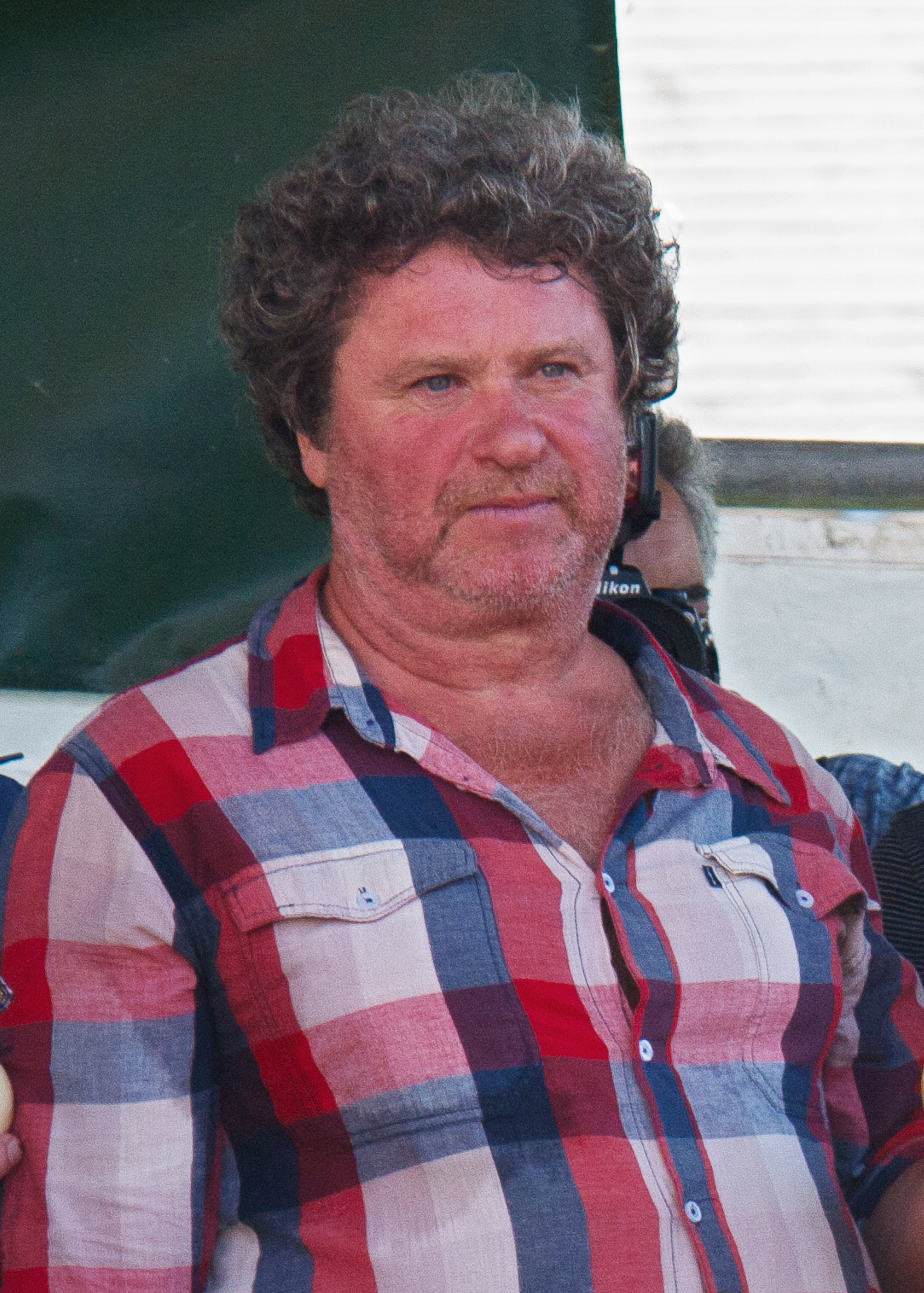 Rory McGrath at Newent Onion Fayre 2012